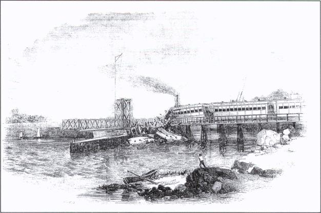 Contemporaneous illustration of the Norwalk rail accident of 1853 entitled The Catastrophe.